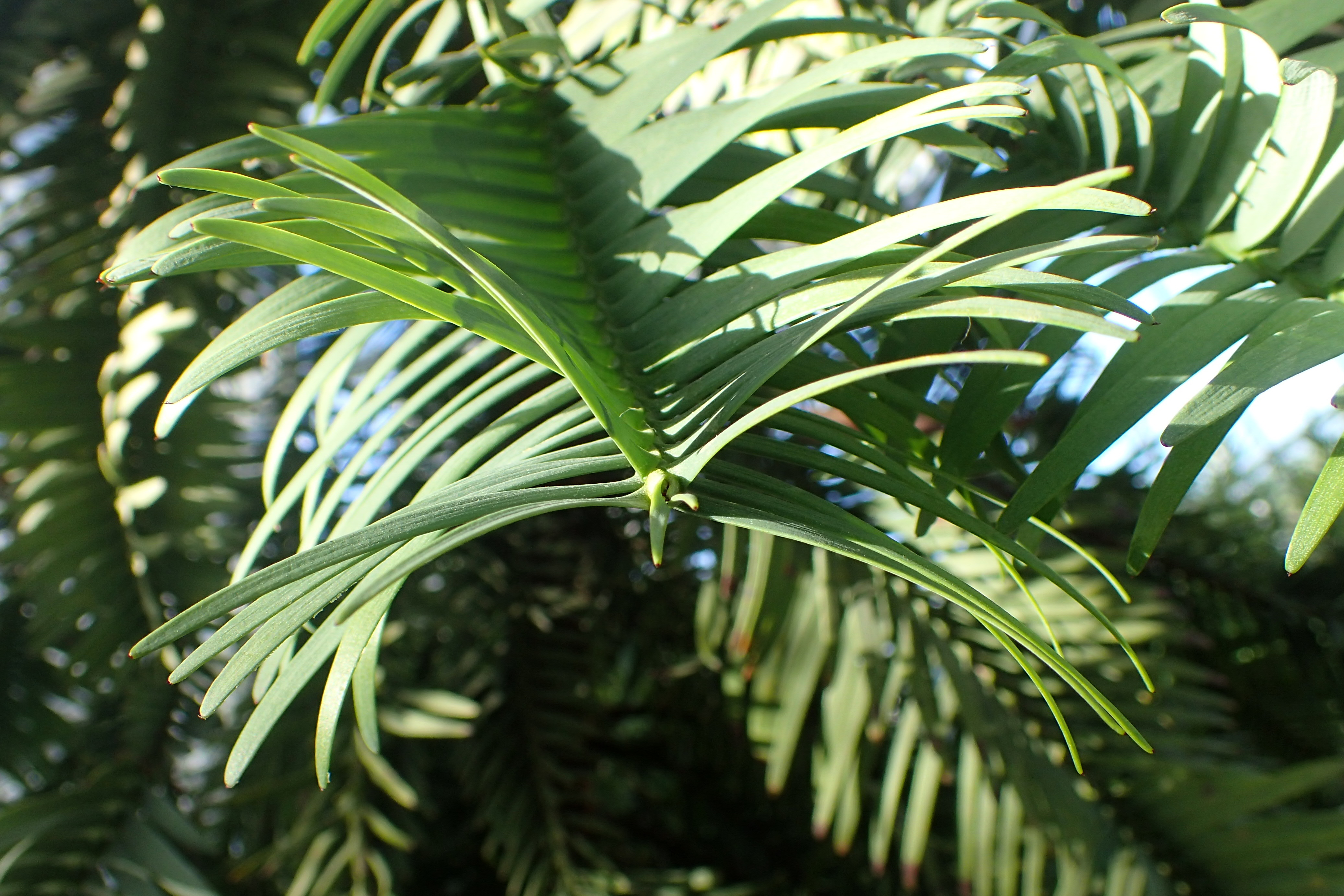 Wollemia nobilis in PAN Botanical Garden in Warsaw